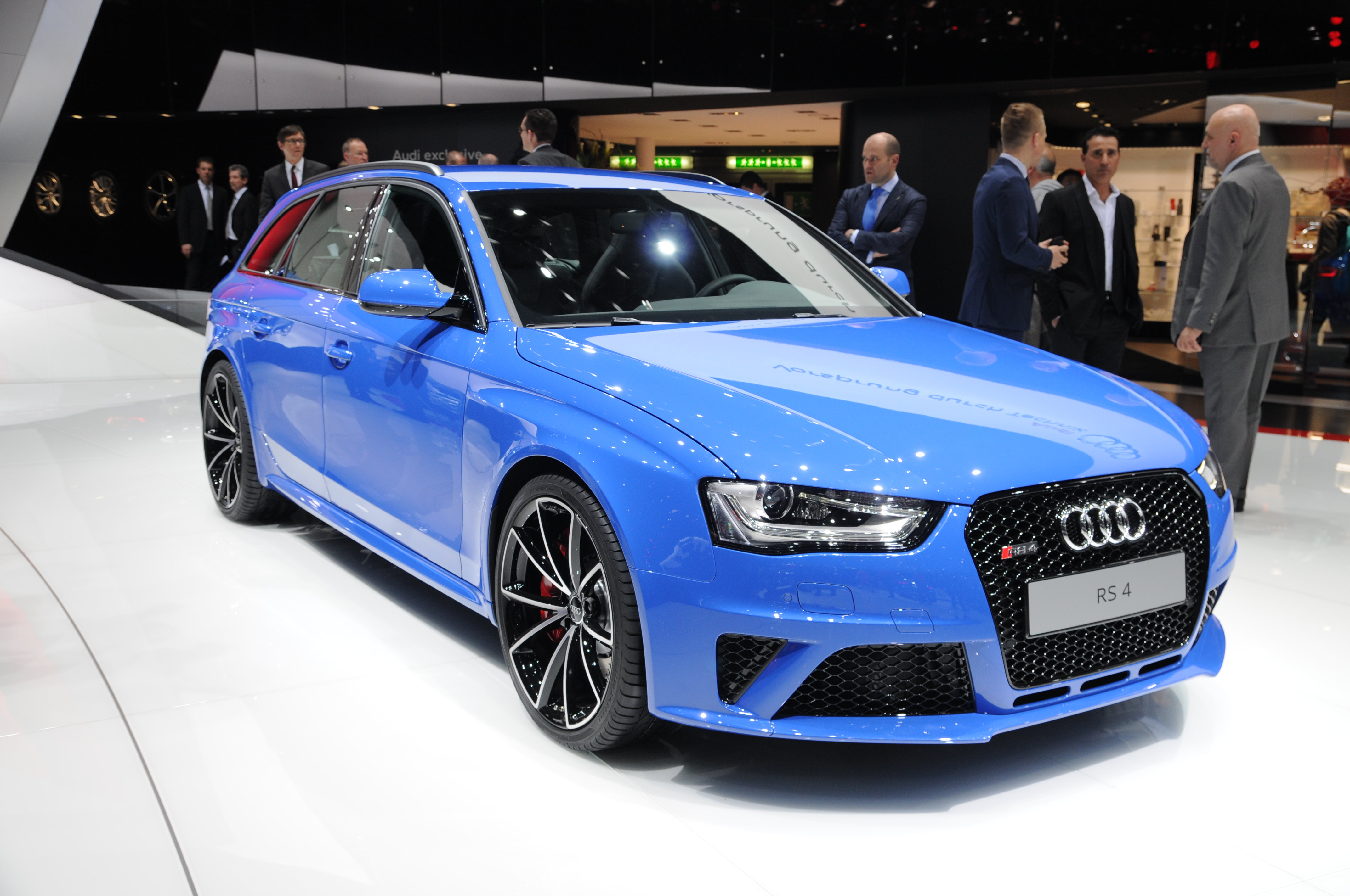 Geneva Motor Show 2014 (photo taken on the first press day)